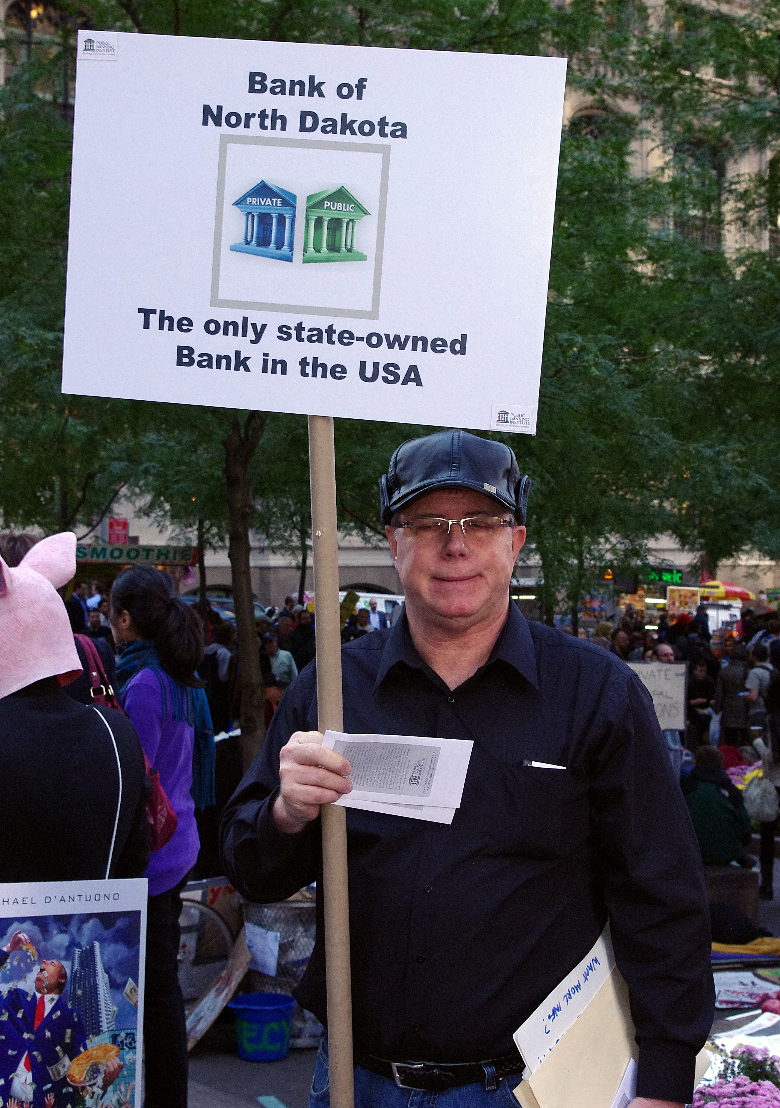 Photos from October 6, Day 21 of Occupy Wall Street. The U.S. Department of Homeland Security continues to keep Wall Street barricaded to the public.